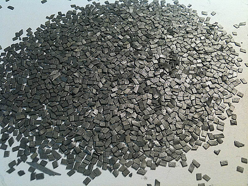 Modern smokeless powder cartridges for shotguns